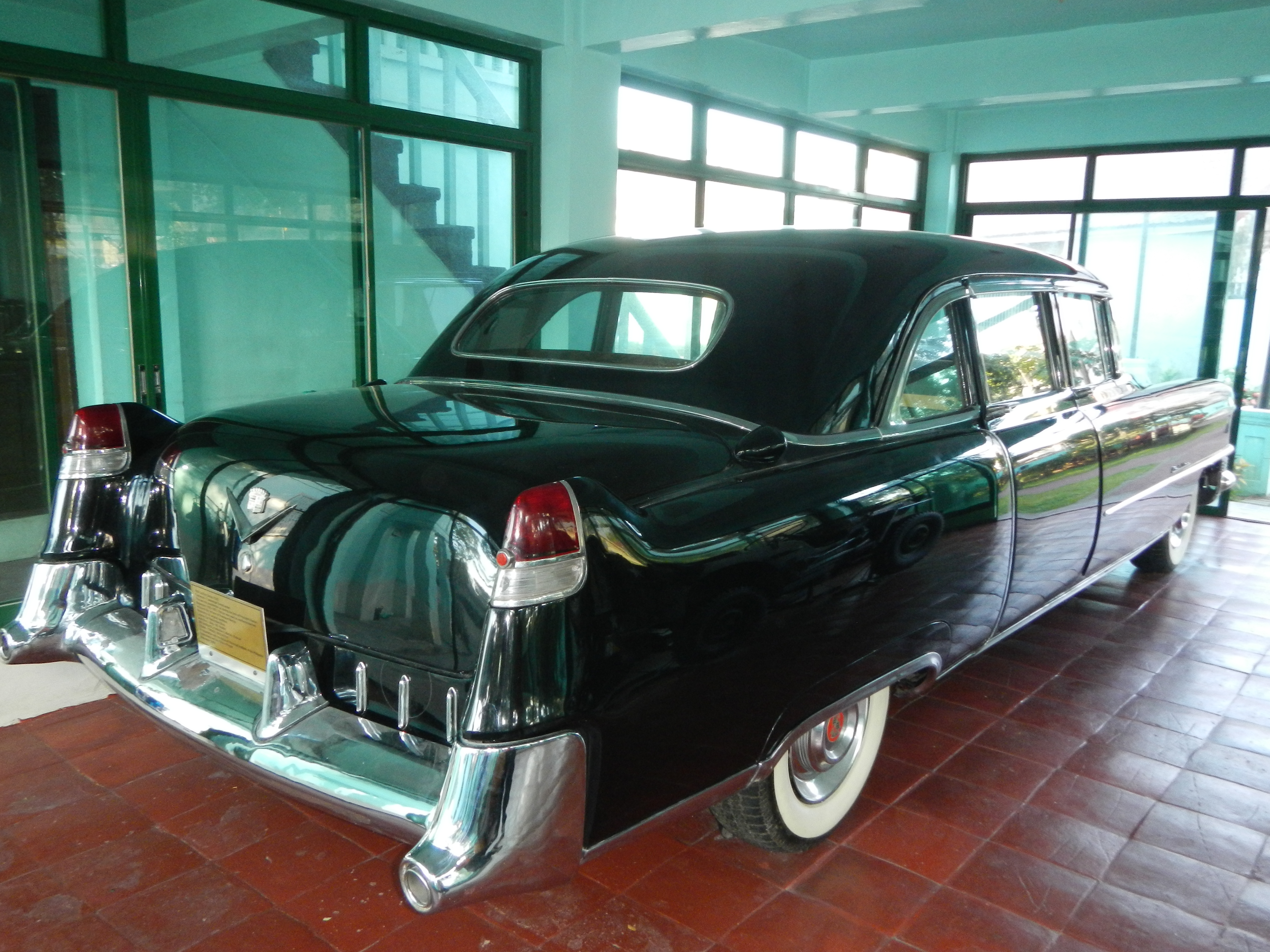 President Ramon Magsaysay Ancestral House, located at Castillejos, Zambales is the ancestral of the seventh Philippine President Ramon Magsaysay. It is open for public viewing. With traces of the past, the Magsaysay residence is was the former leader of the Philippines grew up. This structure houses some of the personal belongings of the late president, from his furniture, appliances, clothing, medallions, and books, to his 1945 Cadillac limousine, and a Willy’s Jeep said to be in good running condition. [1][2][3]Location: Castillejos, Zambales (Region III) Category: Building Type: House, NHCP Museum Status: National Historical Landmark[4][5] Castillejos, Zambales[6] Ramon Magsaysay[7]